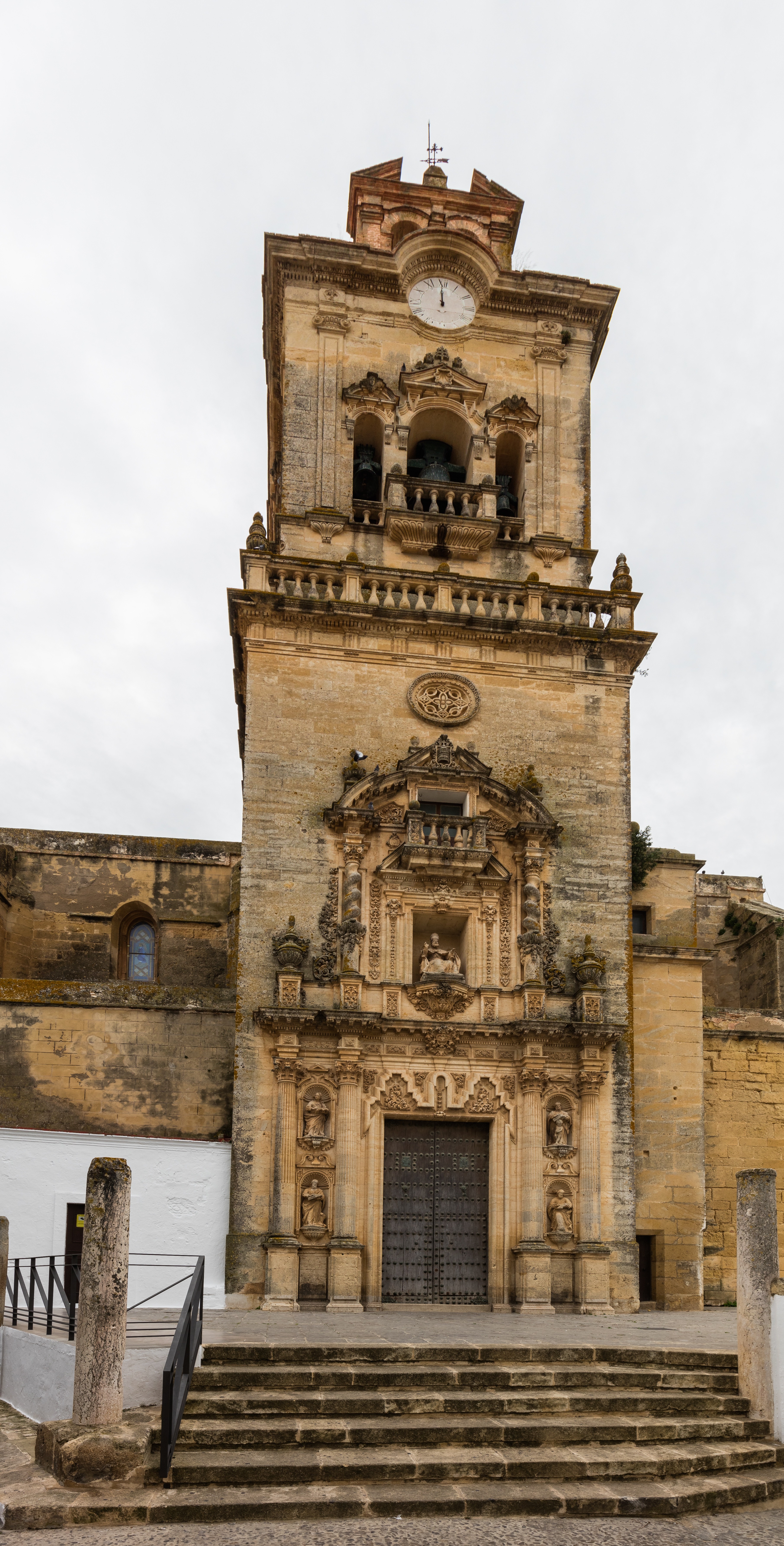 Church of San Pedro, Arcos de la Frontera, Cádiz, Spain